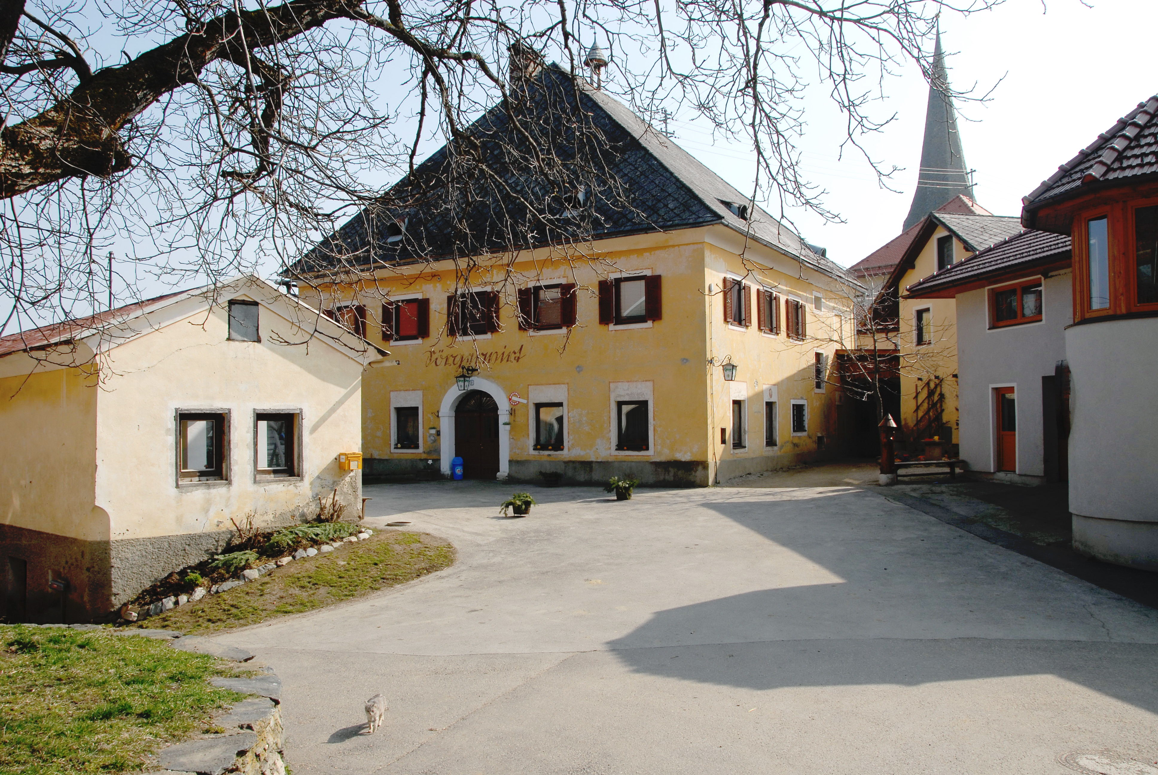 Main square with Soergerwirt at Soerg in the community of Liebenfels, Carinthia, Austria